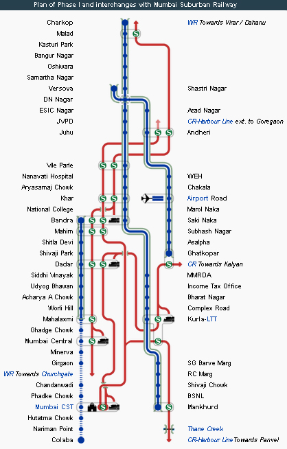 Suggestive map of Mumbai metro